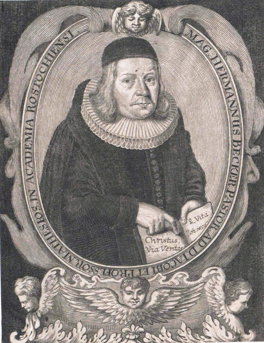 Portrait of Hermann Becker (Mathematiker), copper engraving 181x138 mm